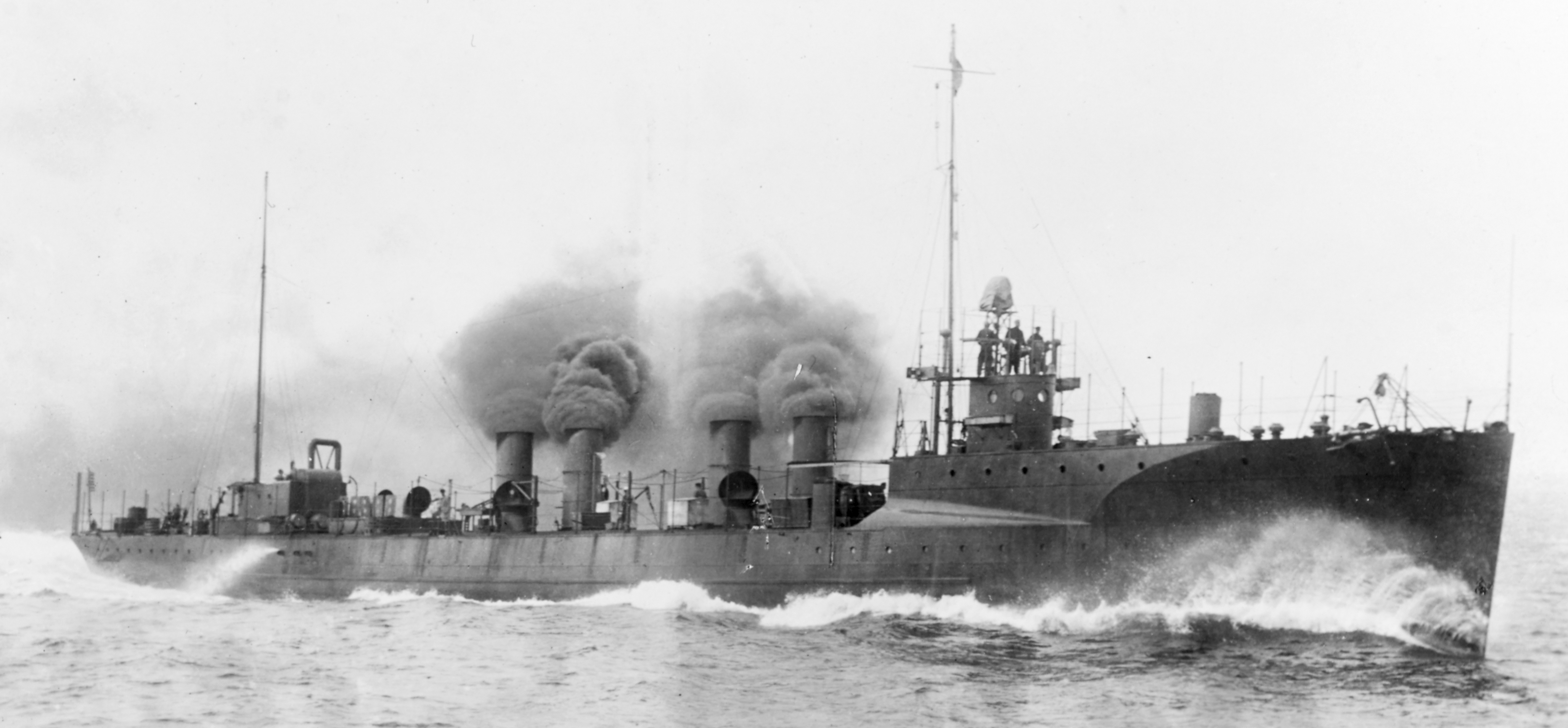 USS Flusser (DD-20) during trials, making 26.04 knots